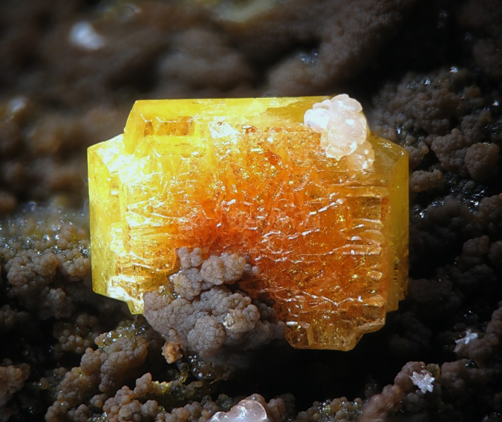 Nadorite Locality: Långban, Filipstad, Värmland, Sweden Picture width 1.3 mm. Collection and photograph Christian Rewitzer